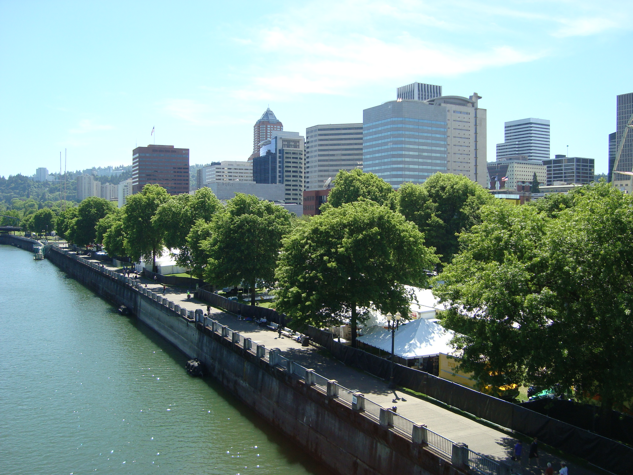 Portland